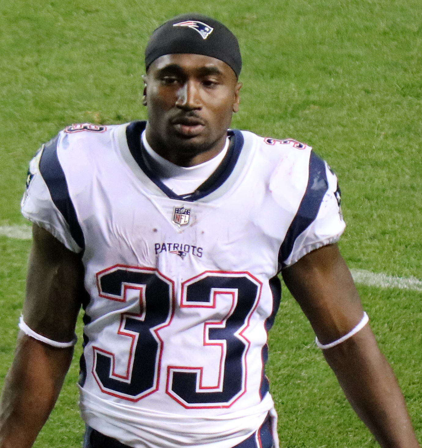 Dion Lewis, a National Football League player.